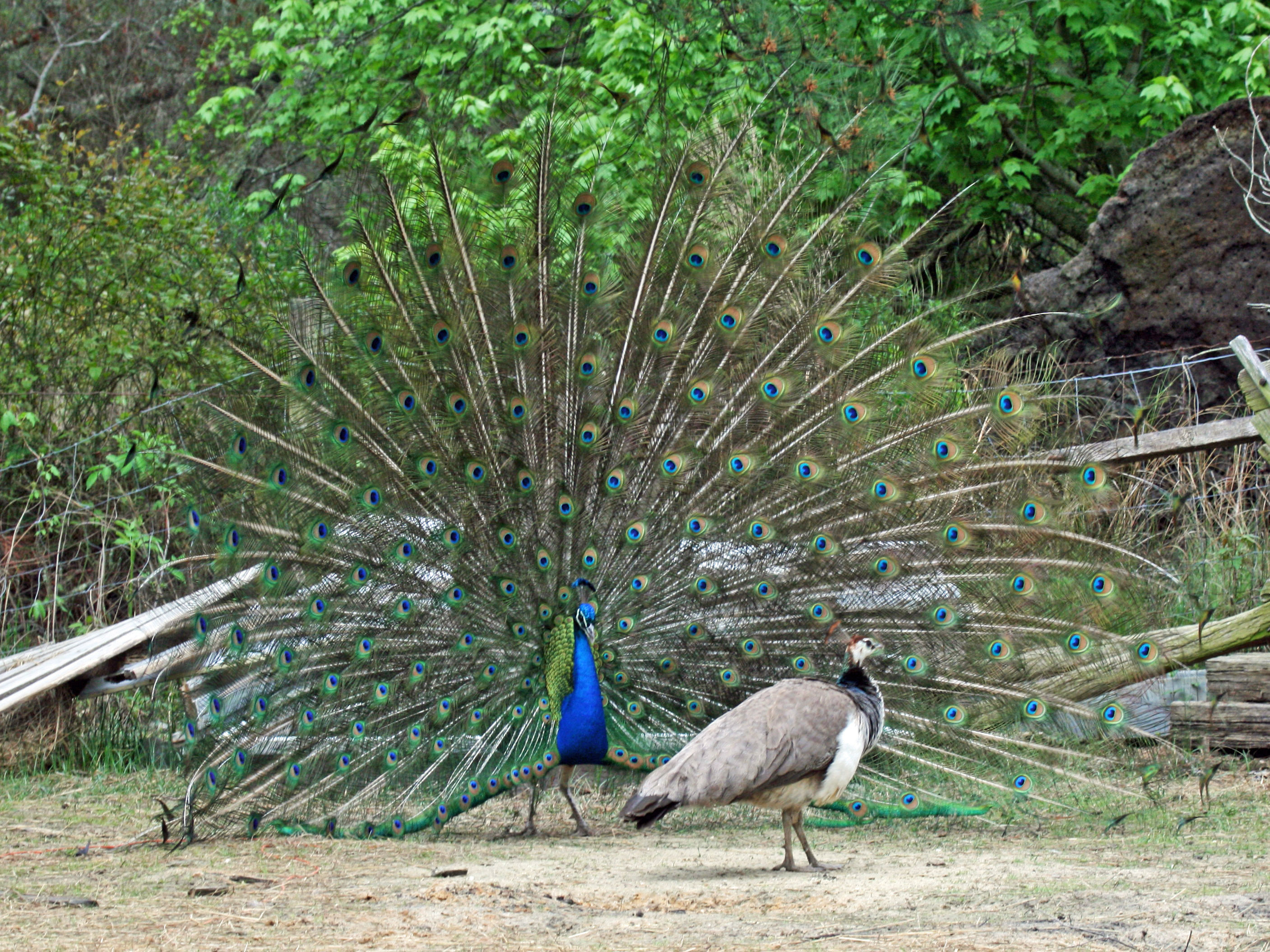 Common Peafowl: male courting female. Pavo_cristatus.